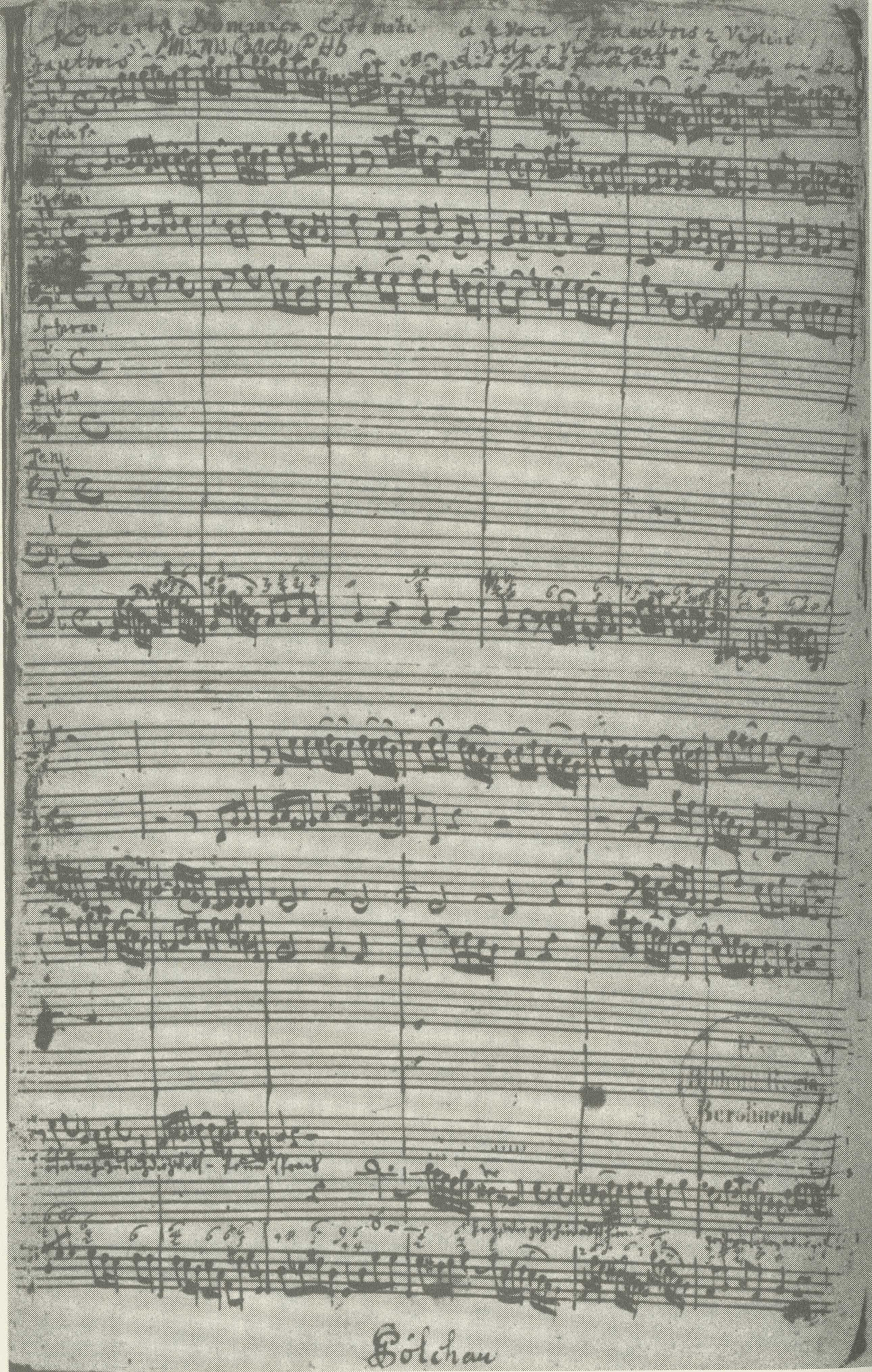 Title page of the manuscript of the cantata "Jesus nahm zu sich die Zwölfe", BWV 22, by Johann Sebastian Bach. Copy by Johann Andreas Kuhnau, Bach's copyist in Lepizig. Original preserved in Staatsbibliothek zu Berlin, Preussischer Kulturbesitz, Mus. ms. Bach P 46.